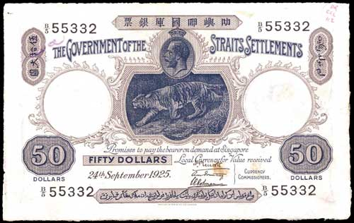 A Straits Settlements 50 Straits dollar banknote from 1911